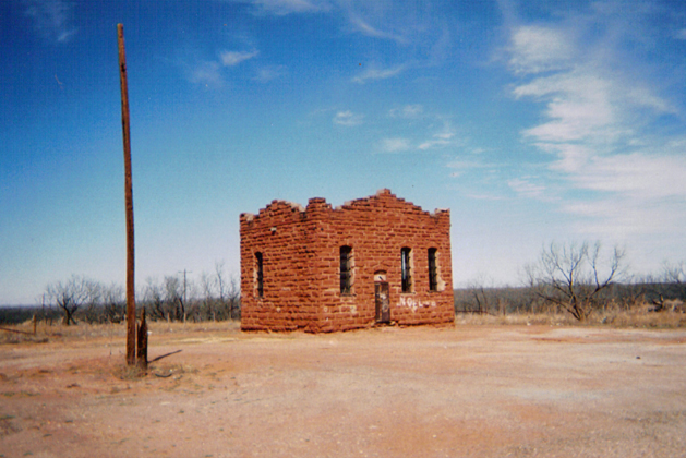 The 1895 Kent County Jail in Clairemont.